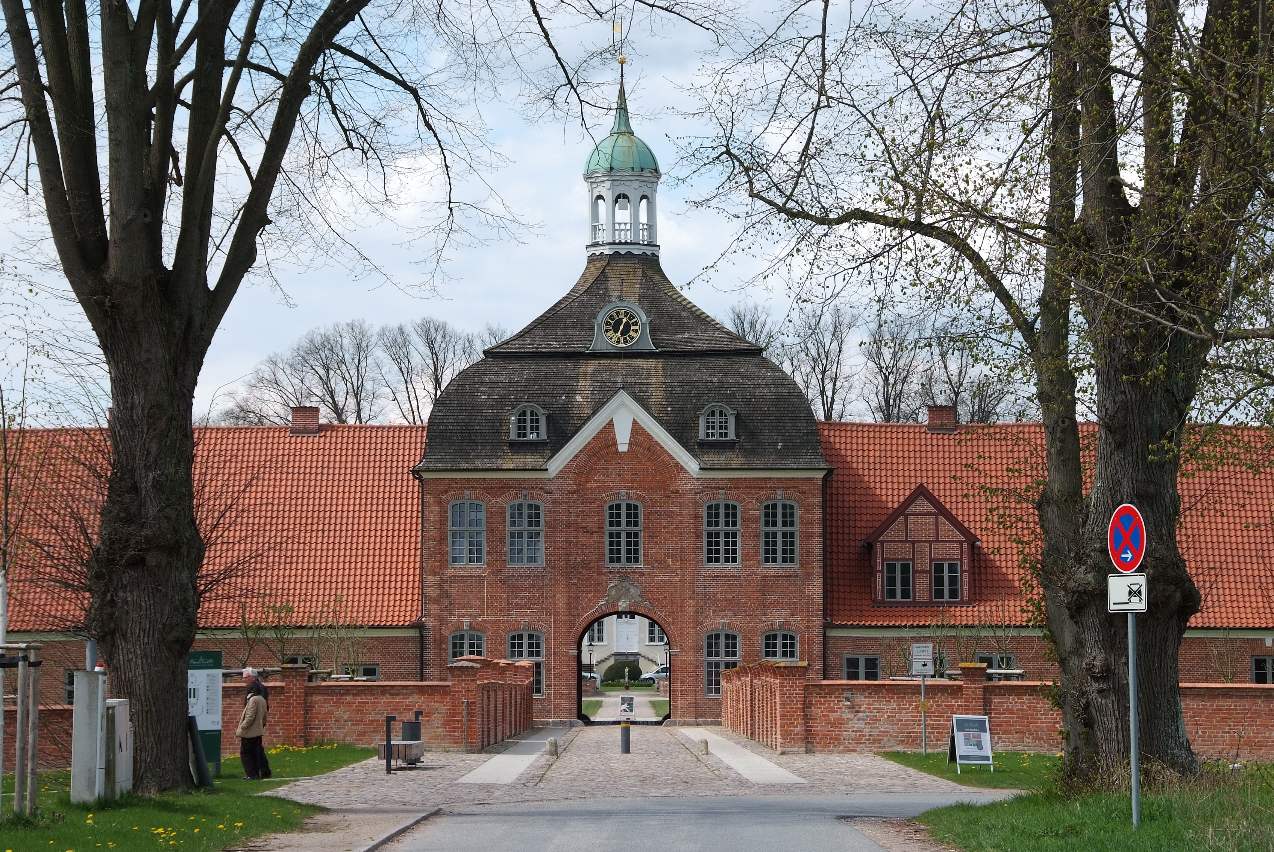 Seen The gatehouse of Kultur Gut Hasselburg from the field side